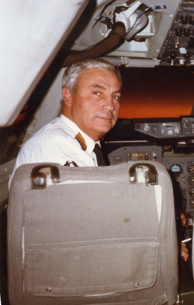 The Air France Airbus pilot hijacked on Entebbe